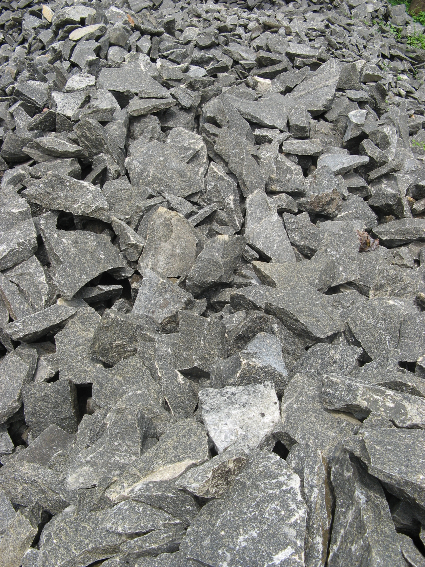 Granite